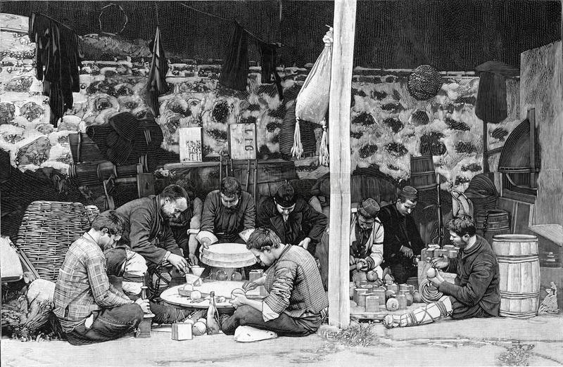 Bulgarian revolutionaries in Macedonia making granades